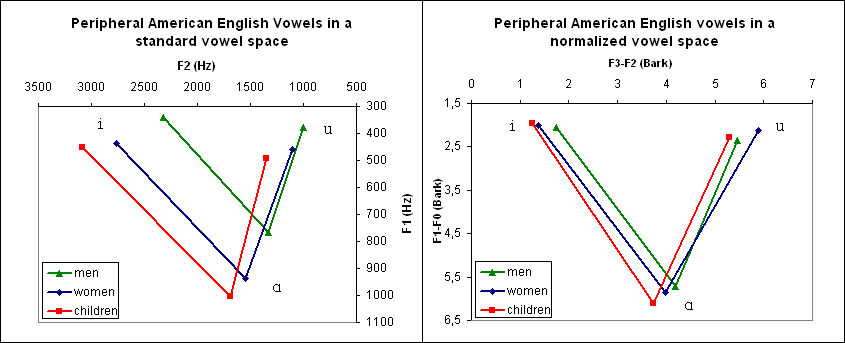 A figure showing the peripheral American English vowels /i/, /a/, and /u/ in a standard F1 by F2 plot (left panel) and in a plot showing formant distances rather than absolute values (right panel).